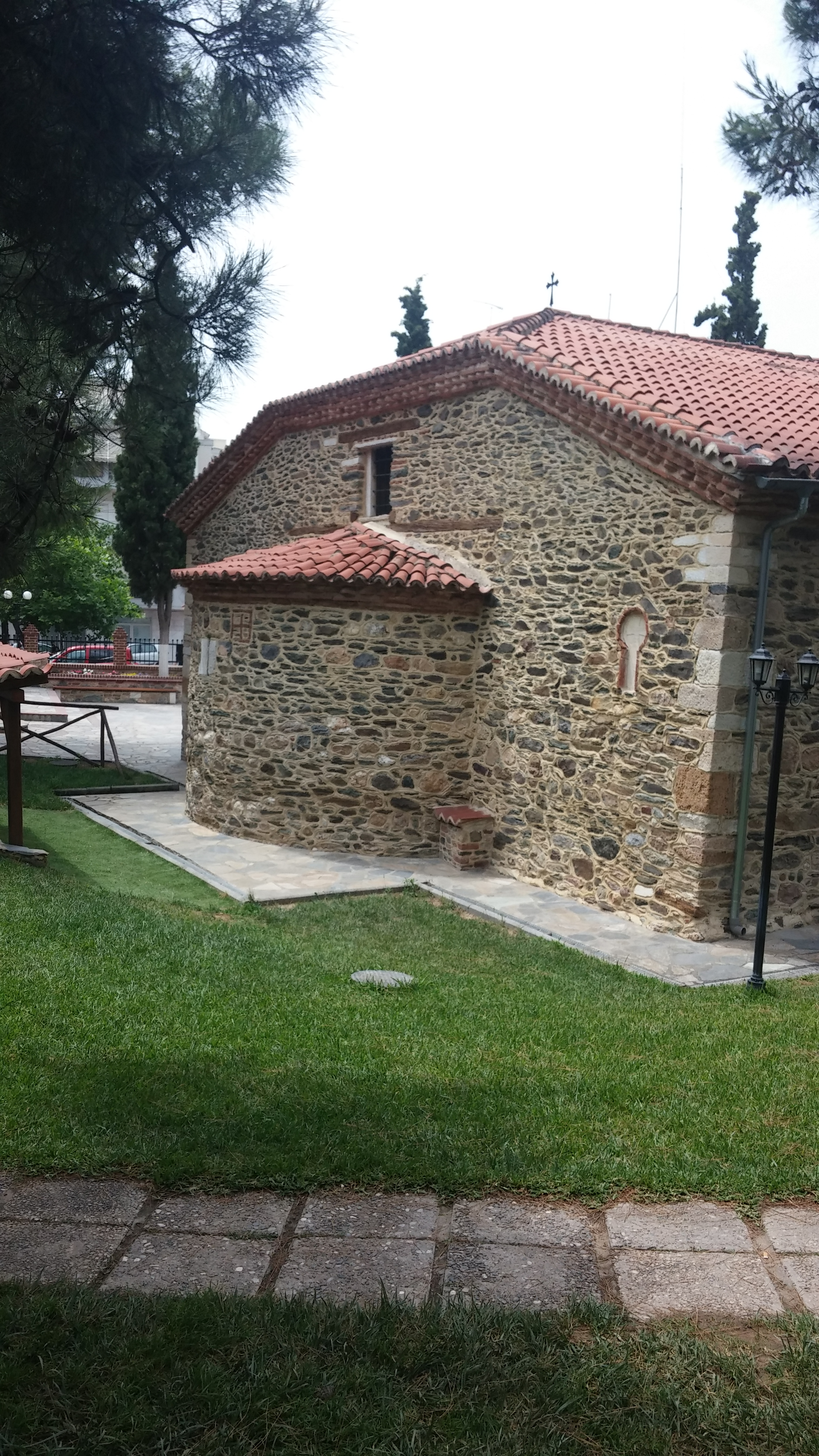 Saint Athanasius Church in Evosmos in Thessaloniki